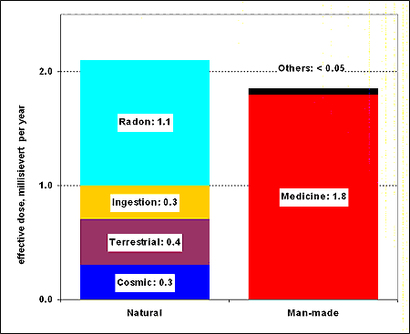 Average radiation exposure in Germany, 2005 . The effective dose from all natural and artificial radiation sources amounts for inhabitants in Germany to an average of 3.9 millisievert per year. Natural radiation exposure and medical exposure, particularly x-ray diagnostics, contribute each nearly half of the total dose. Compared to the radiation dose from nature and medicine and above all considering the considerable variation of these dose values, all other dose contributions are actually negligible.